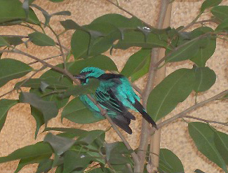 Species Dacnis cayana Family Thraupidae